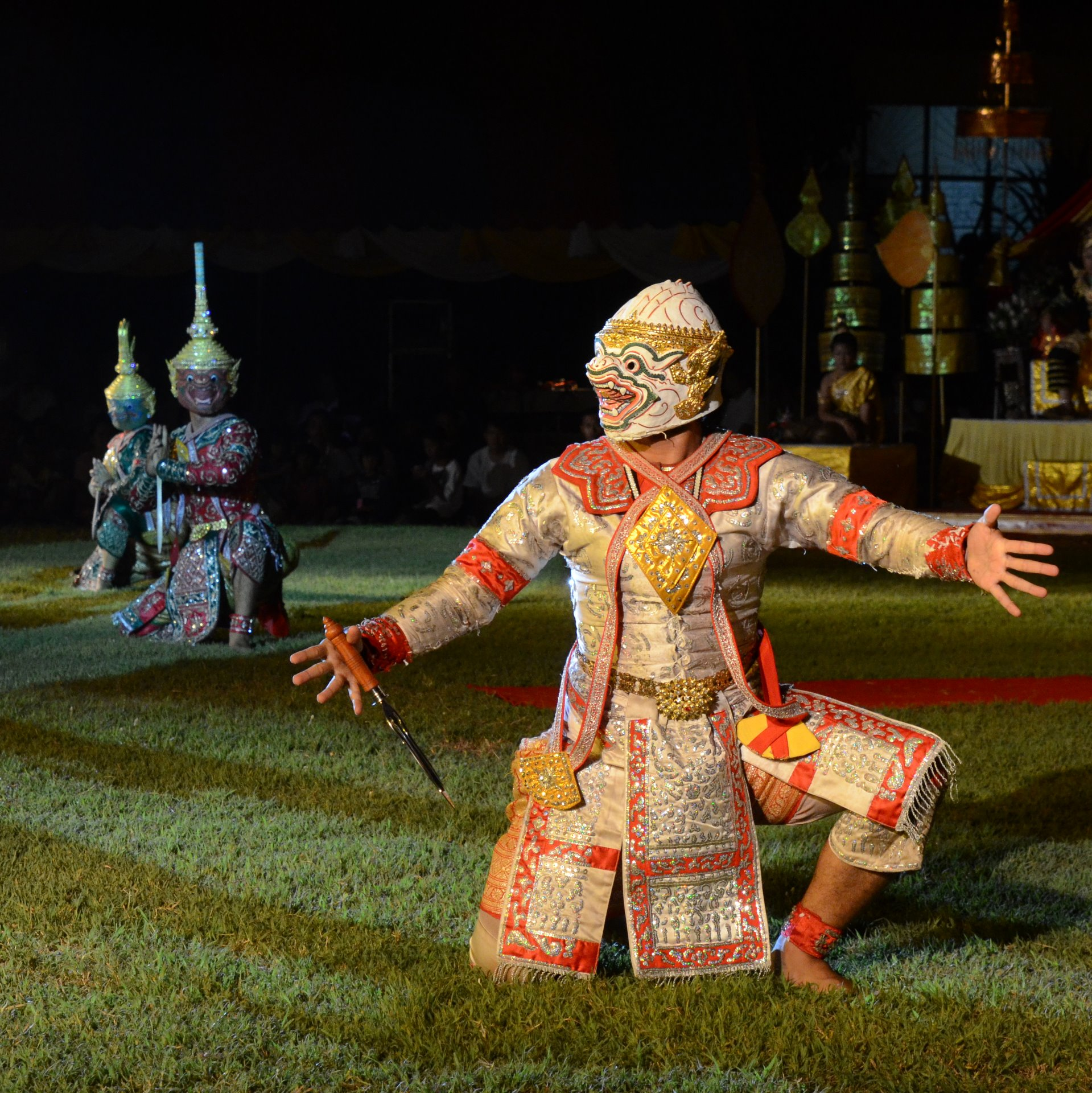 The Atthami Bucha Festival is held each year at "Wat Phra Borom That Thung Yang" in Thung Yang village, along road 102, just a few kilometres west of Uttaradit, commemorating the cremation of the Buddha.